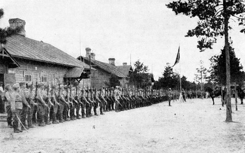 Lineup of the Danish Baltic Auxiliary Corps at Nõmme, Estonia.